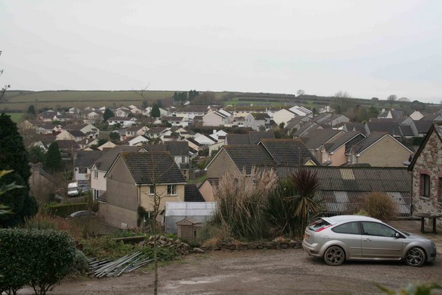 St Keyne village The newer estates at St Keyne as seen from the road opposite the church.